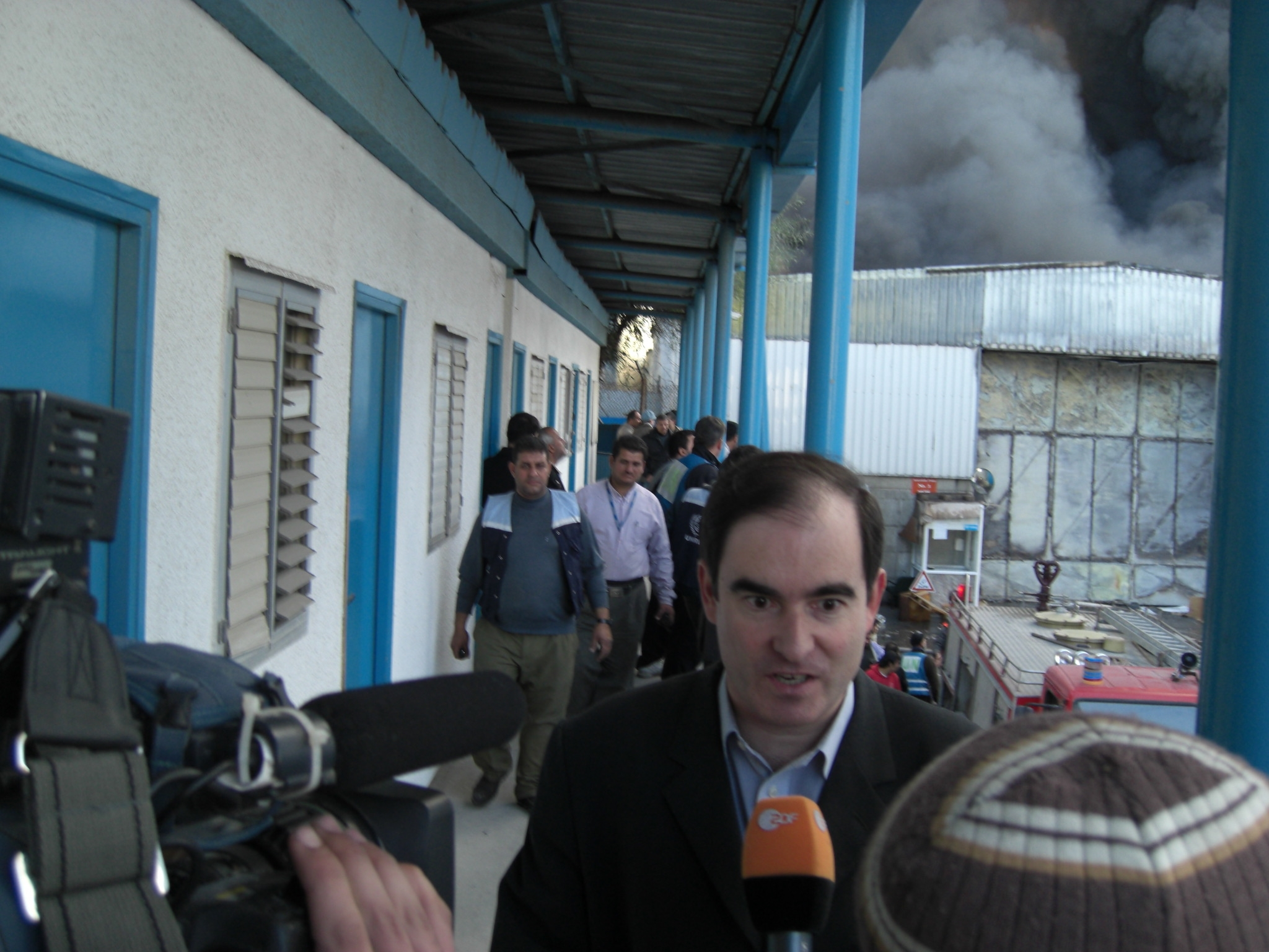 This is UNRWA head Jon Ging standing in front of the recently shelled UNRWA school in Gaza